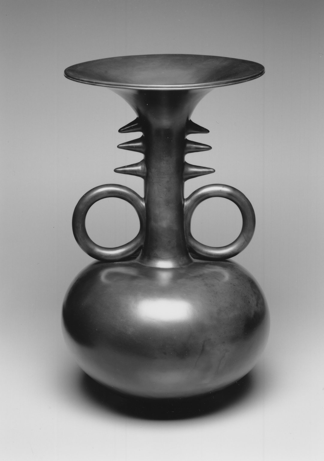 Black narrow-necked, symmentrical vessel made in 1990 by Magdalene Anyango N. Odundo who was born in Nairobi, Kenya (Luo, b.1950). Hand built vessel finished with a burnished slip and reduction-fired in a saggar to give a variegated black and orange-red surface. Condition: Excellent.